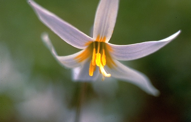 Erythronium albidum Nutt.